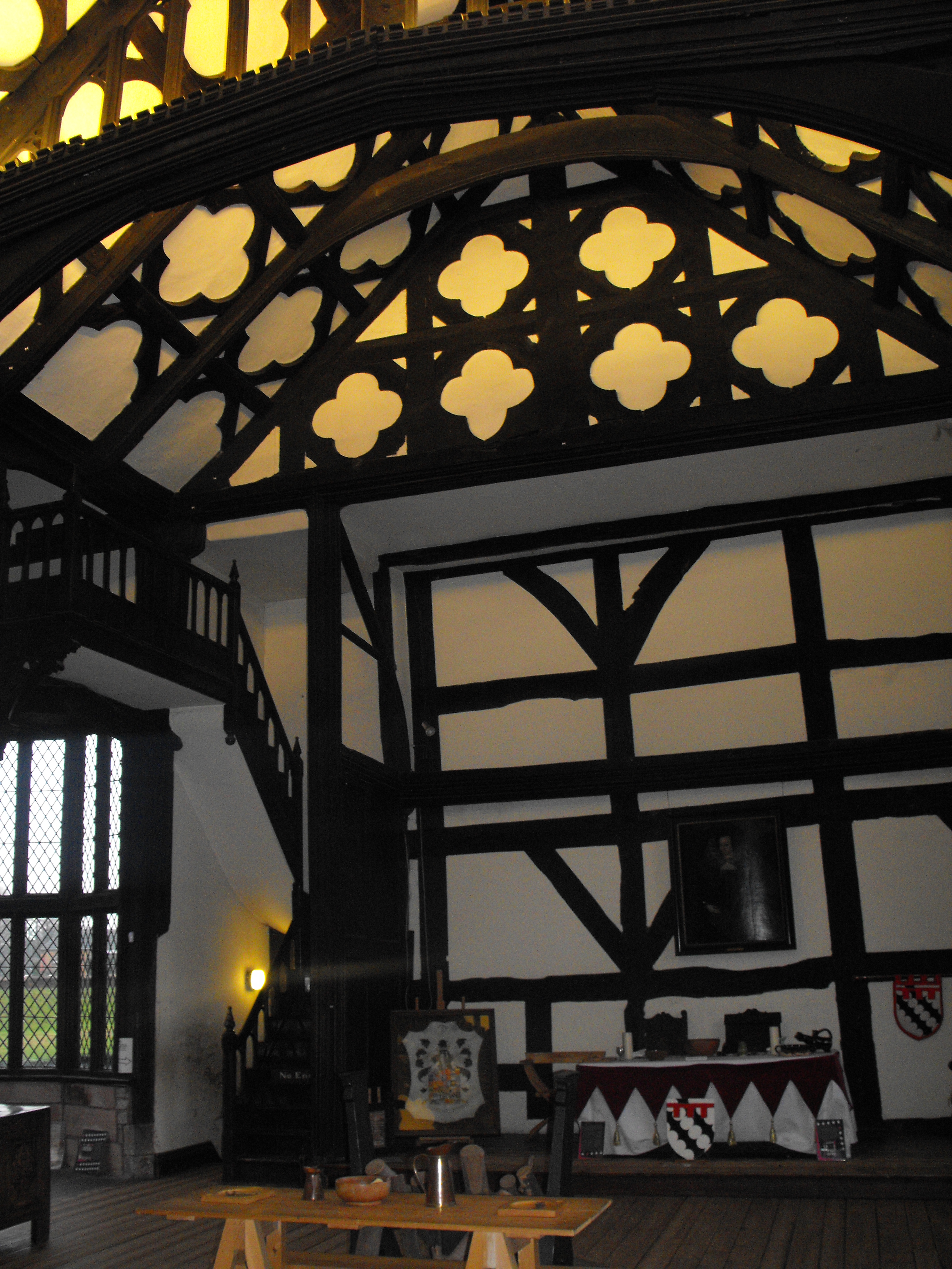 The high end of Ordsall Hall's Great Hall. To the left of the staircase is a corridor leading to the Star Chamber.